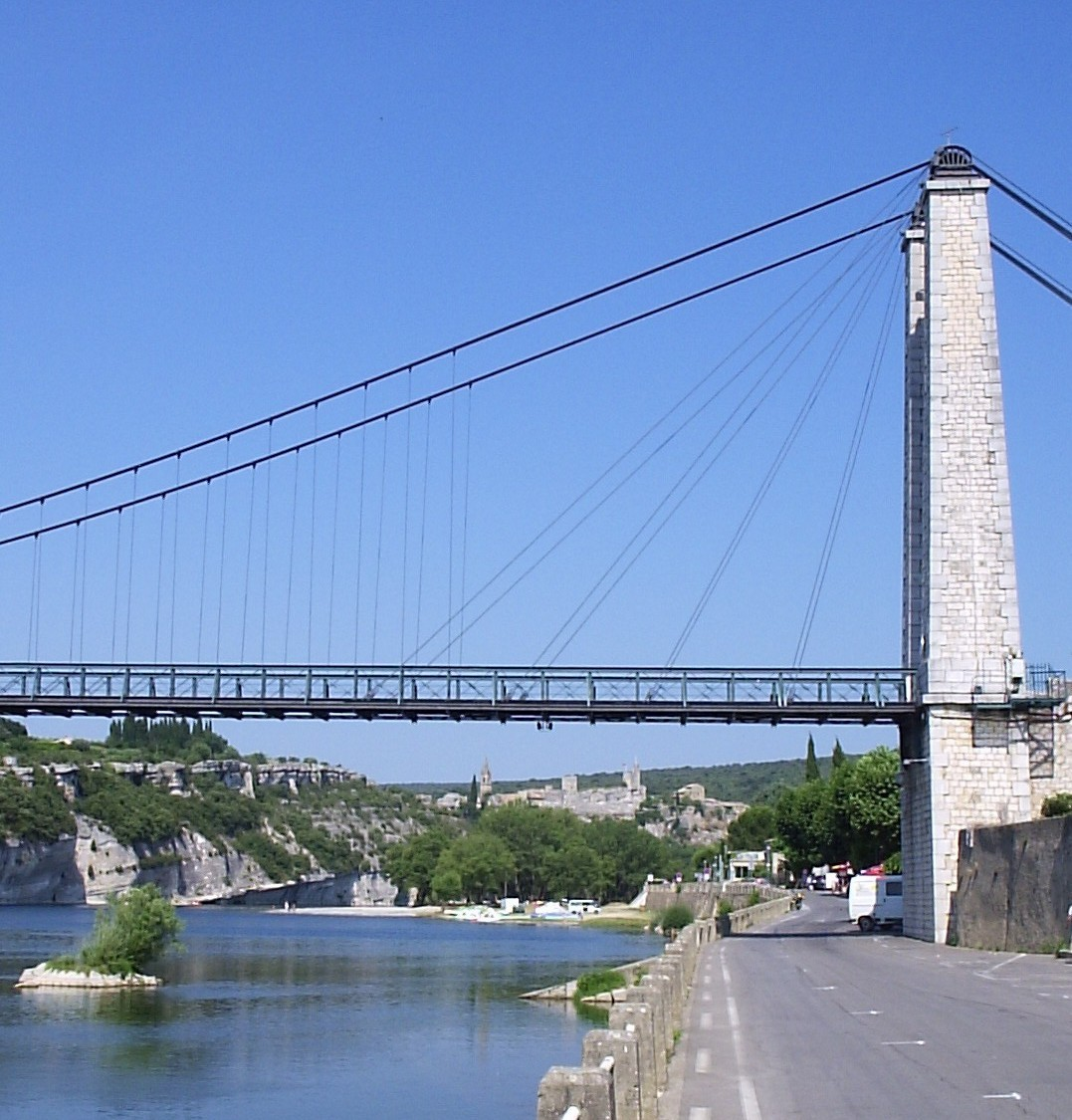 St-Martin, the Ardèche river under a suspension bridge, facing Aiguèze on the cliff.